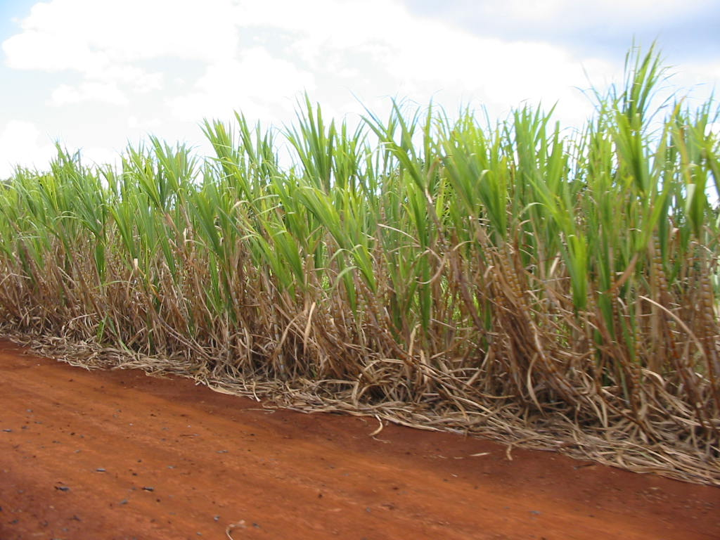 Suger cane field near Marot, Pakistan